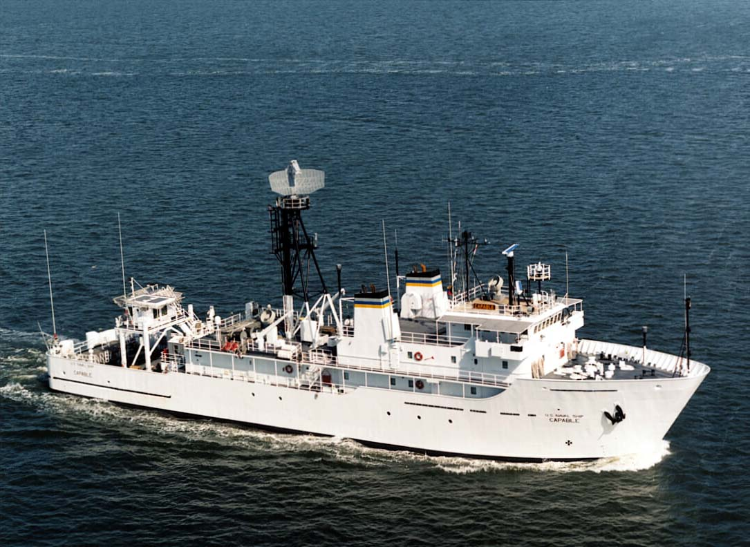 The former Navy ship USNS Capable (T-AGOS-16), which will become NOAA's only ship dedicated to exploring unknown or little known ocean areas.)